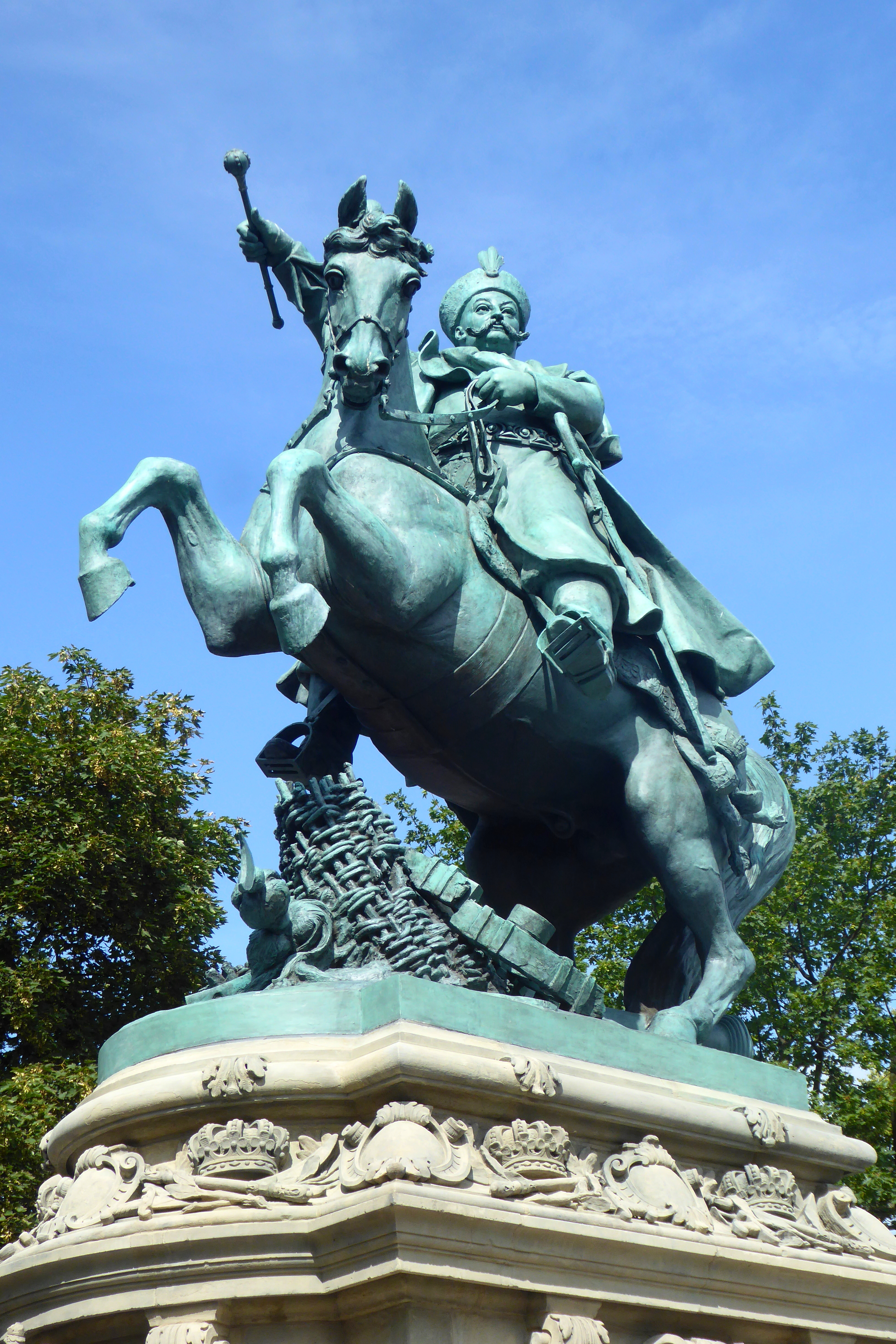 The sculpture atop the John III Sobieski Monument in Gdańsk.